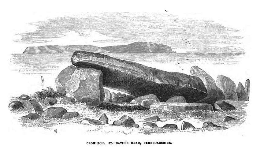 Archaeologia Cambrensis: Cromlech St David's Head Pembrokeshire (Arthur's Quoit)